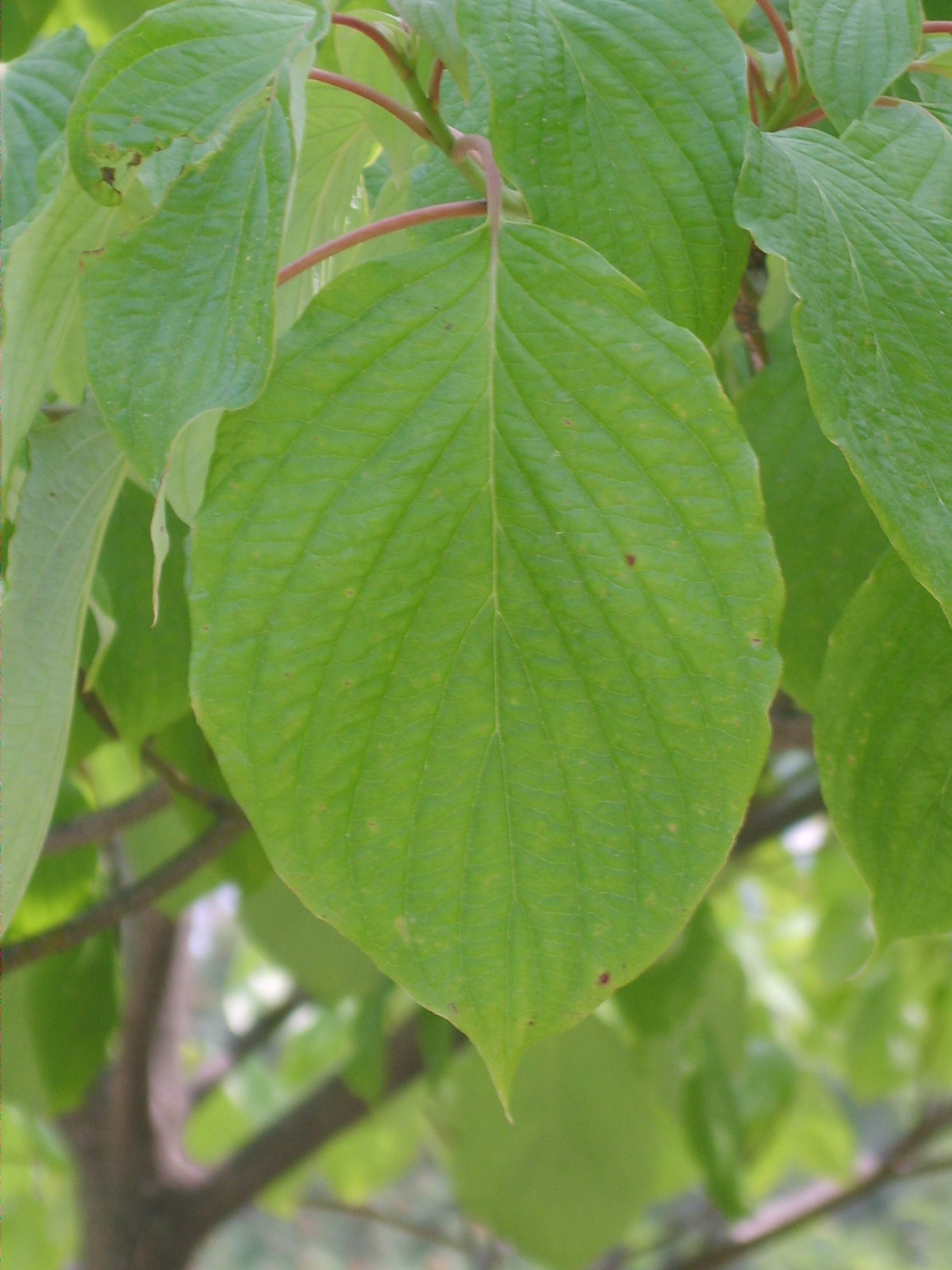 Cornus controversa in Incheon Grand park, Korea